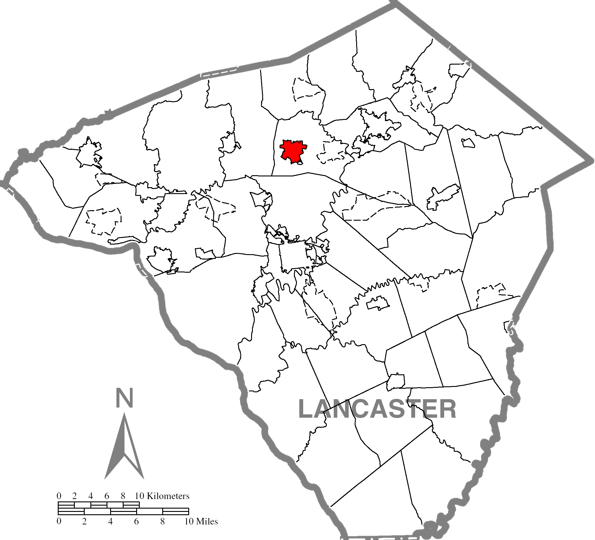 Highlighted Lancaster County map of Lititz.